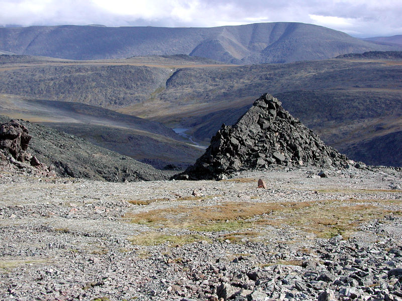 Polar Ural Mountains